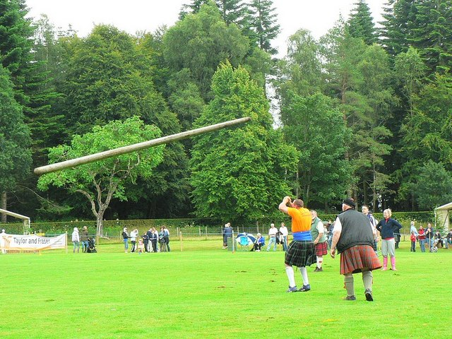 Inveraray Highland Games - Tossing the Caber (2). Following on from 981256 the heavy, wide end of the caber should land, and the narrow end pass over it. To see the next step 981281